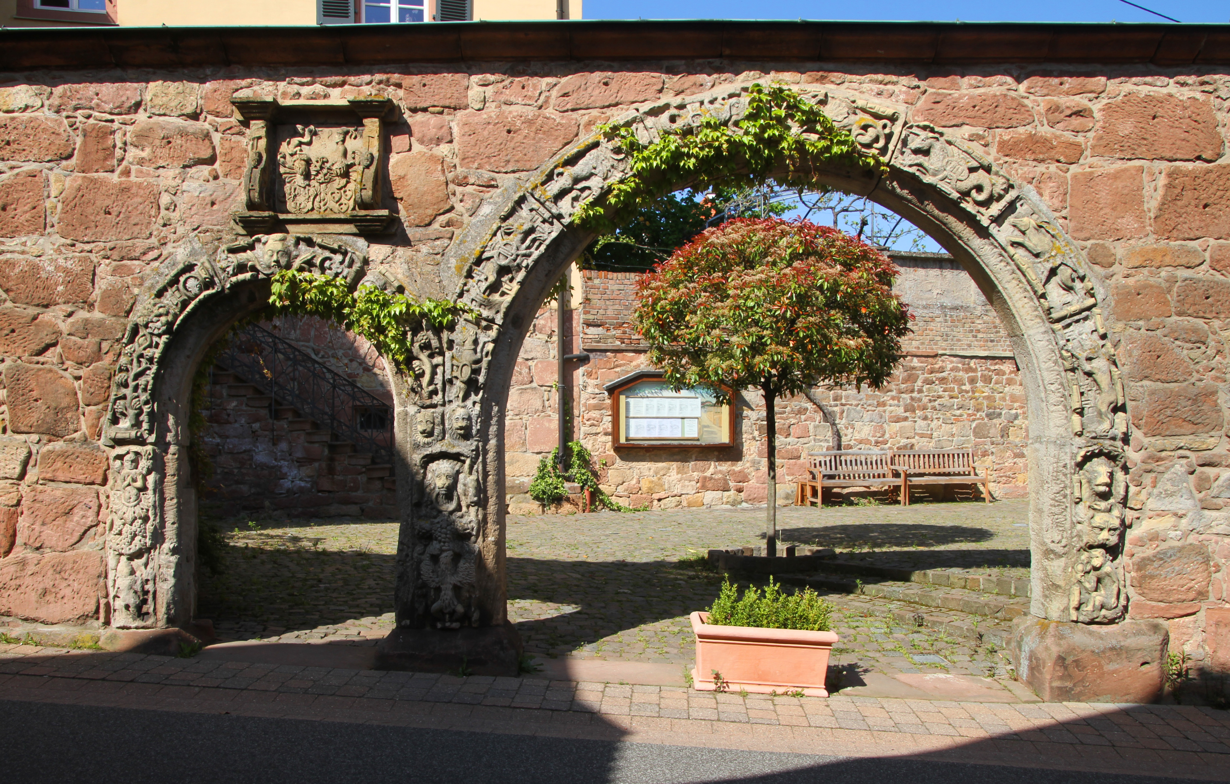 Castle in Burrweiler